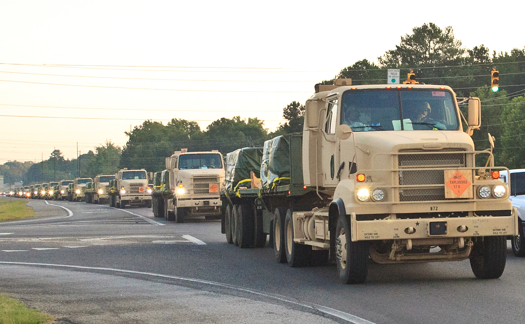 A convoy of 13 trucks laden with ammunition rolls out of Anniston Army Depot on its way to Crane, Ind., during the Golden Cargo training mission.